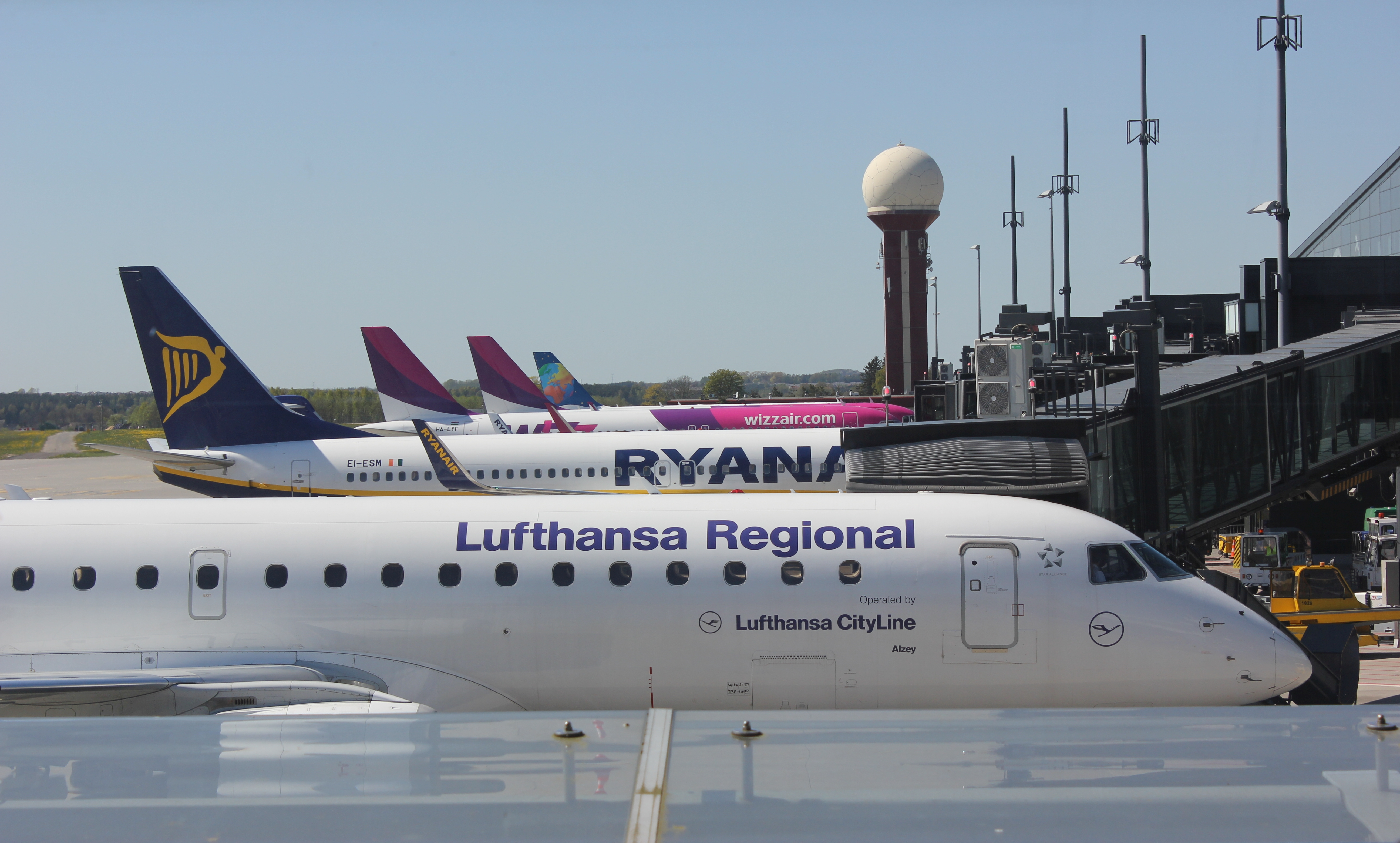 Gdańsk - Lech Wałęsa Airport